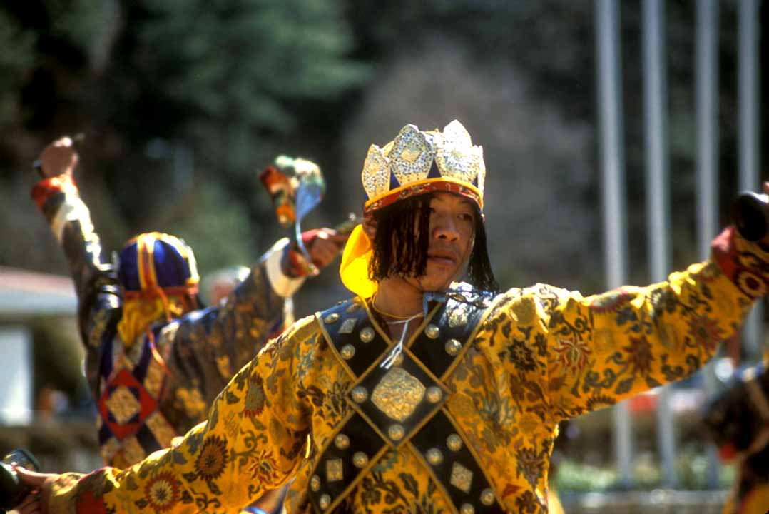 The small Himalayan mountain kingdom of Bhutan has numerous Buddhist festivals. Many consist of elaborate dances (some of them masked). This shot, however, was taken at a reception hosted by the country's foreign minister, where he entertained his guests with traditional music and dances.(Author's comment on Flickr)Bhutan 10